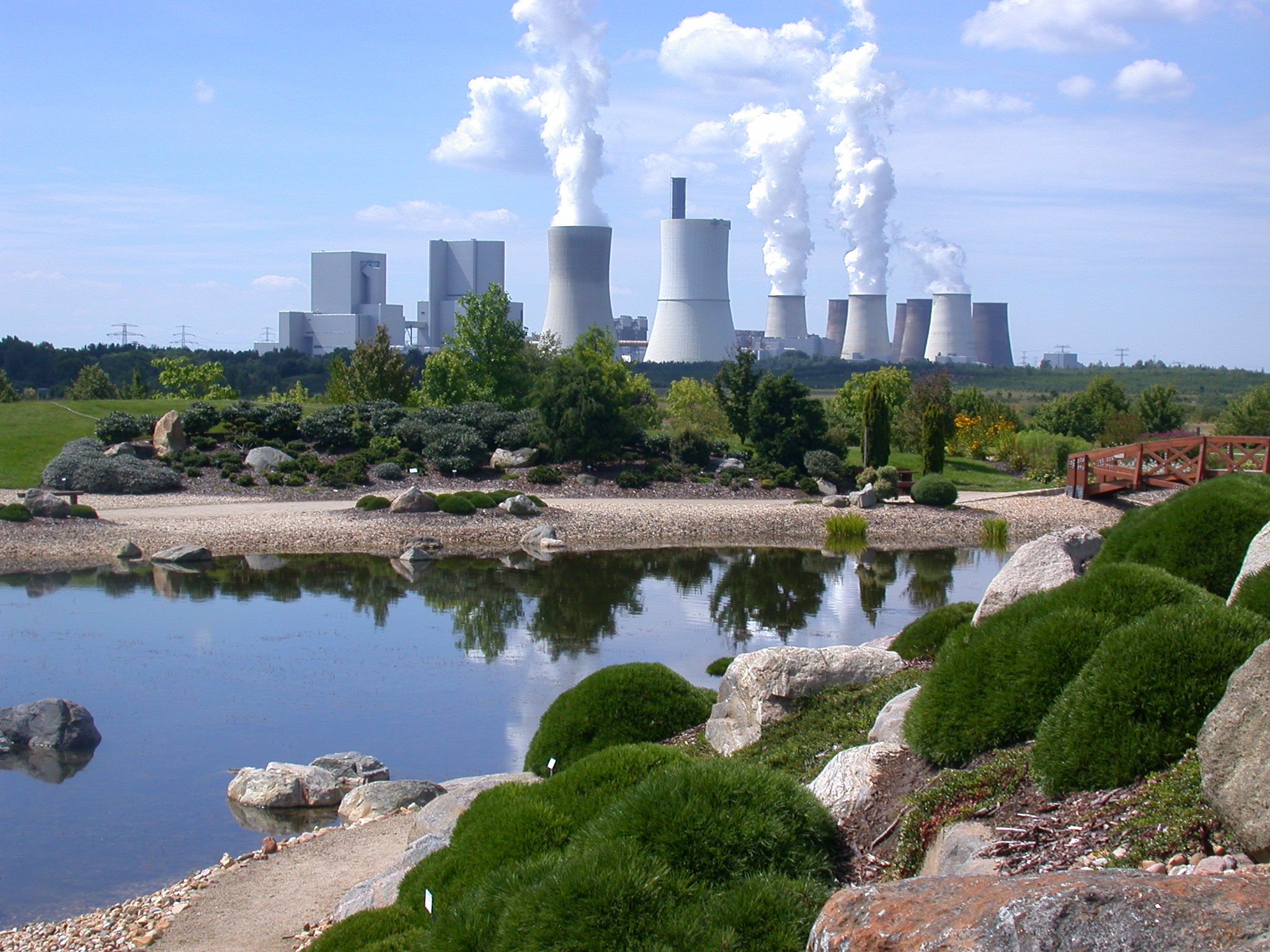 Germany - Saxony - Görlitz (district) - Boxberg: Boxberg Power Station